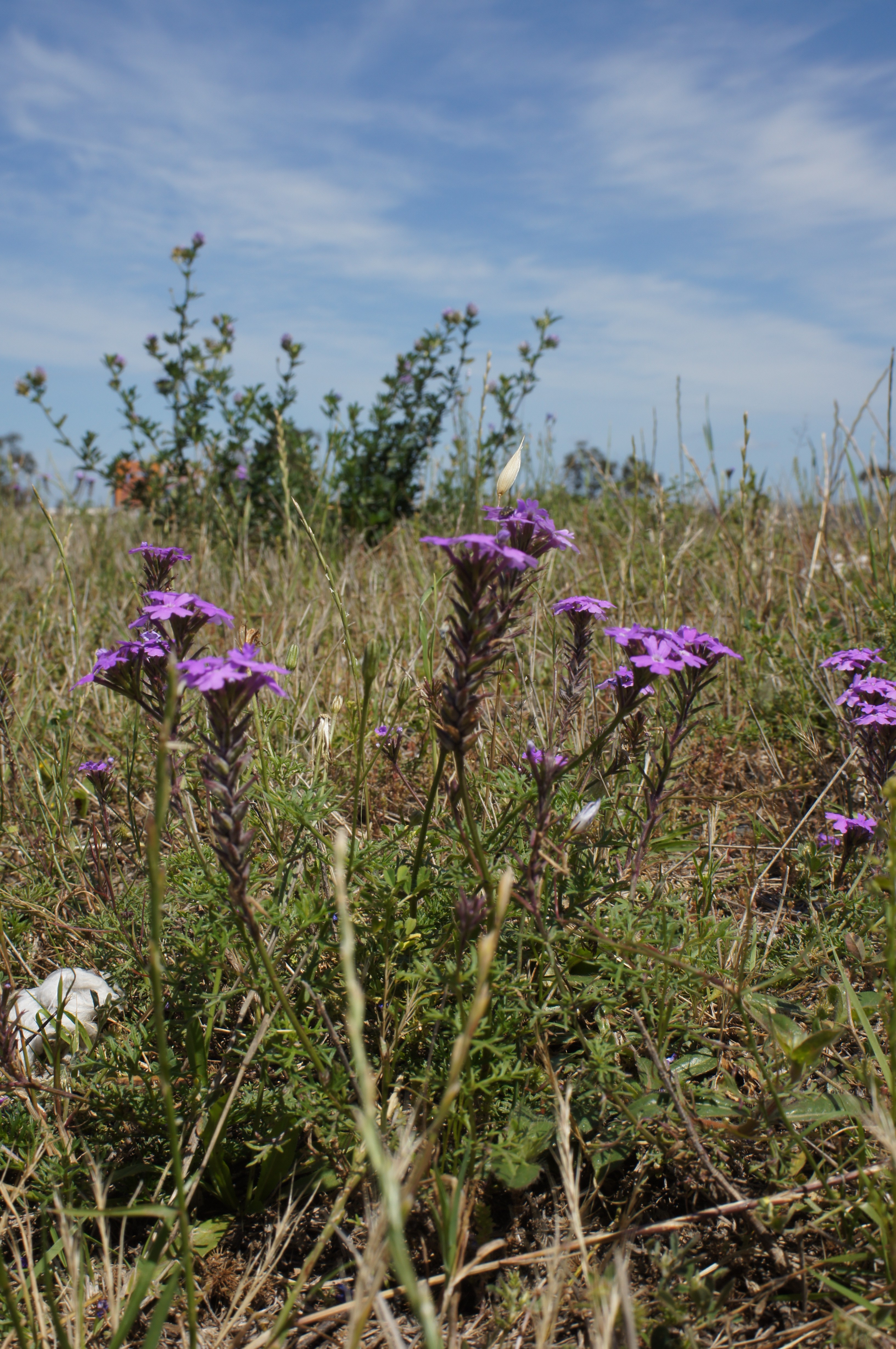 Introduced, cool-season, perennial herb to 60 cm tall. Stem and branches are procumbent, decumbent or erect, quadrangular and moderately hairy. Leaves are shortly petiolate or sessile, triangular in outline, shortly hairy, becoming hairless with age, Lower leaves are variously acutely serrate, 1- or 2-pinnatifid, mostly 3-pinnatifid, 2–7 cm long and ultimate segments uniformly linear to subulate. Upper leaves are incised to sub-entire and smaller than lower leaves. Flowerheads are terminal and head-like. Peduncle, bracts and calyx are strongly glandular. Calyx is 5-toothed. Corolla is tubular, 5-lobed and white to violet or purple. Flowering is from spring to mid-summer. A native of South America, it is found in disturbed areas such as roasides.